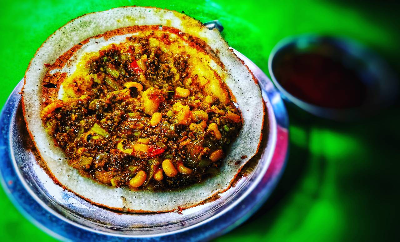 Newari Chatamari